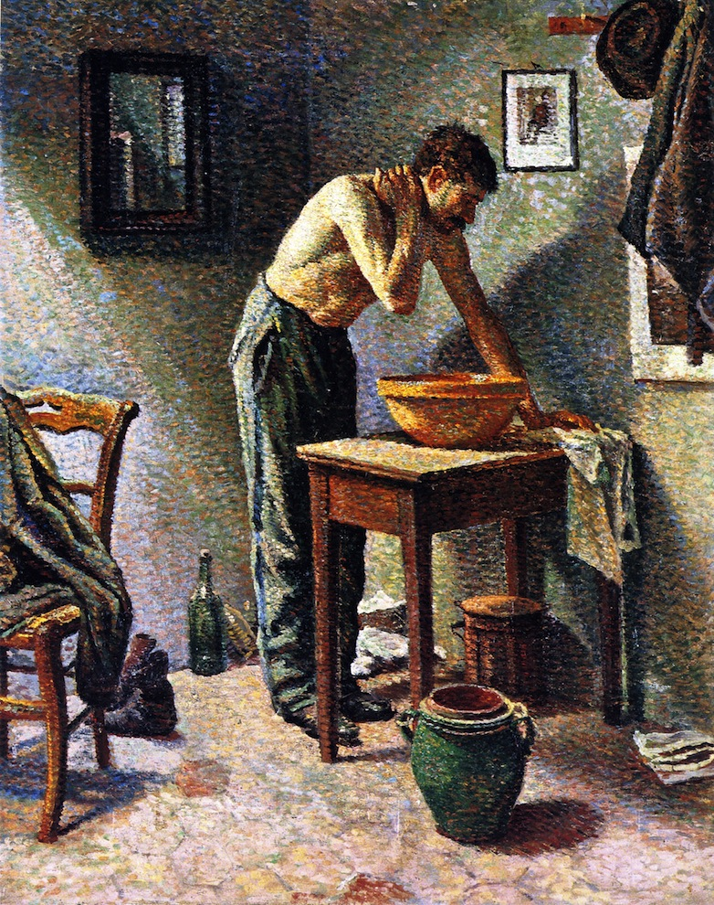 Man Washing